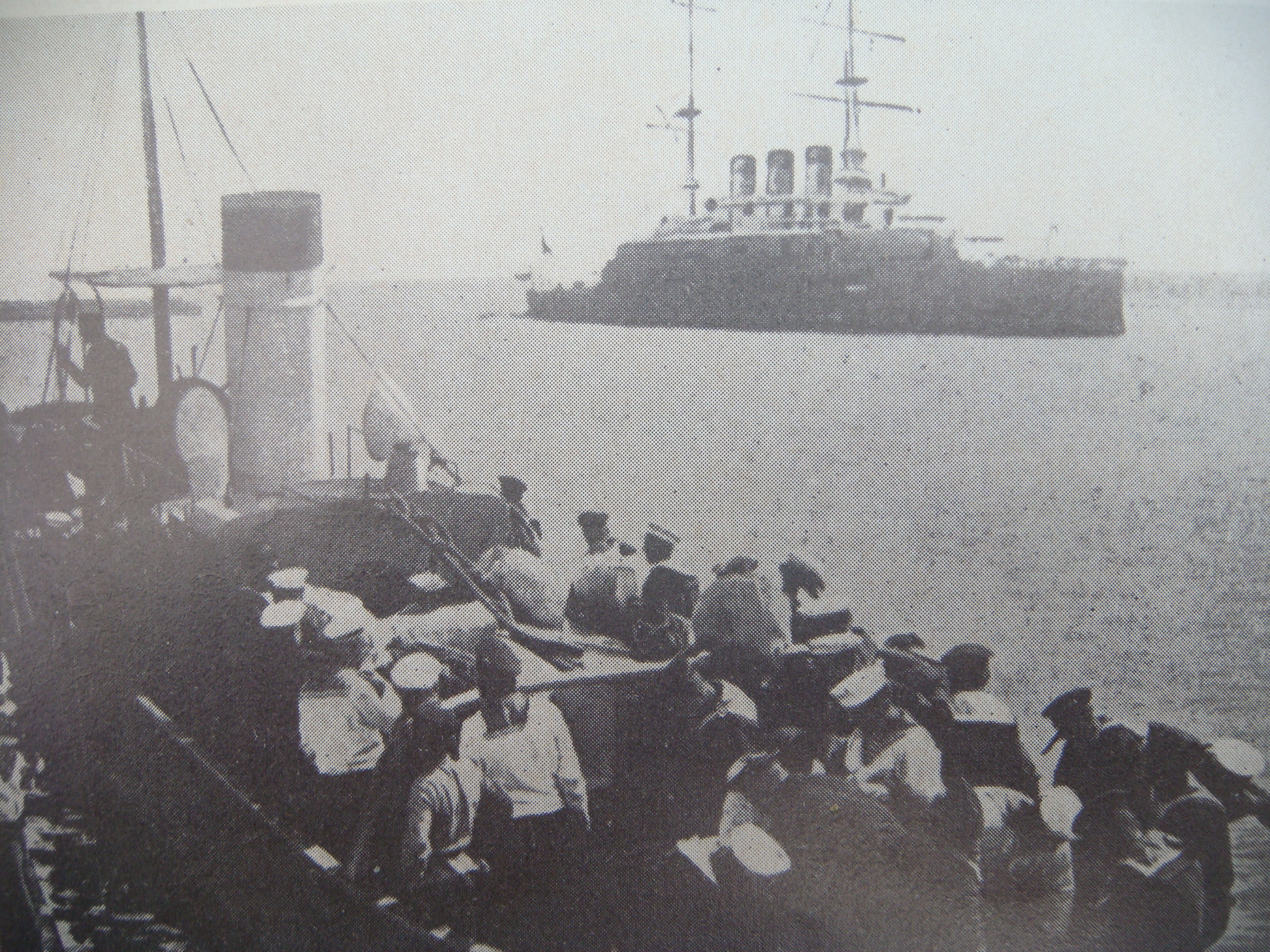 Mutiny on board Russian battleship Knyaz Potemkin of June 1905. Potemkin in Constantza port